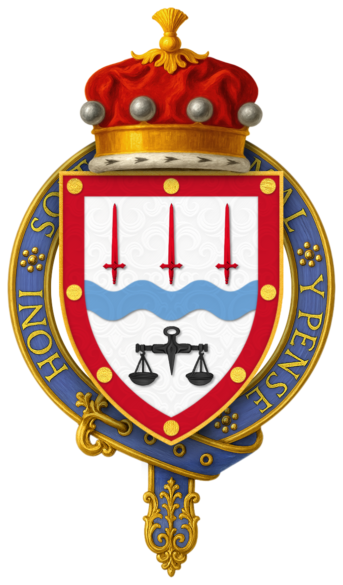 Coat of Arms of Gordon Richardson, Baron Richardson of Duntisbourne, KG, MBE, TD, PC, DL ARMS: Argent a fess wavy bleu celeste between in chief three swords in pale, points upwards fesswise gules, and in base a pair of scales sable, on a bordure of the third eight bezants.